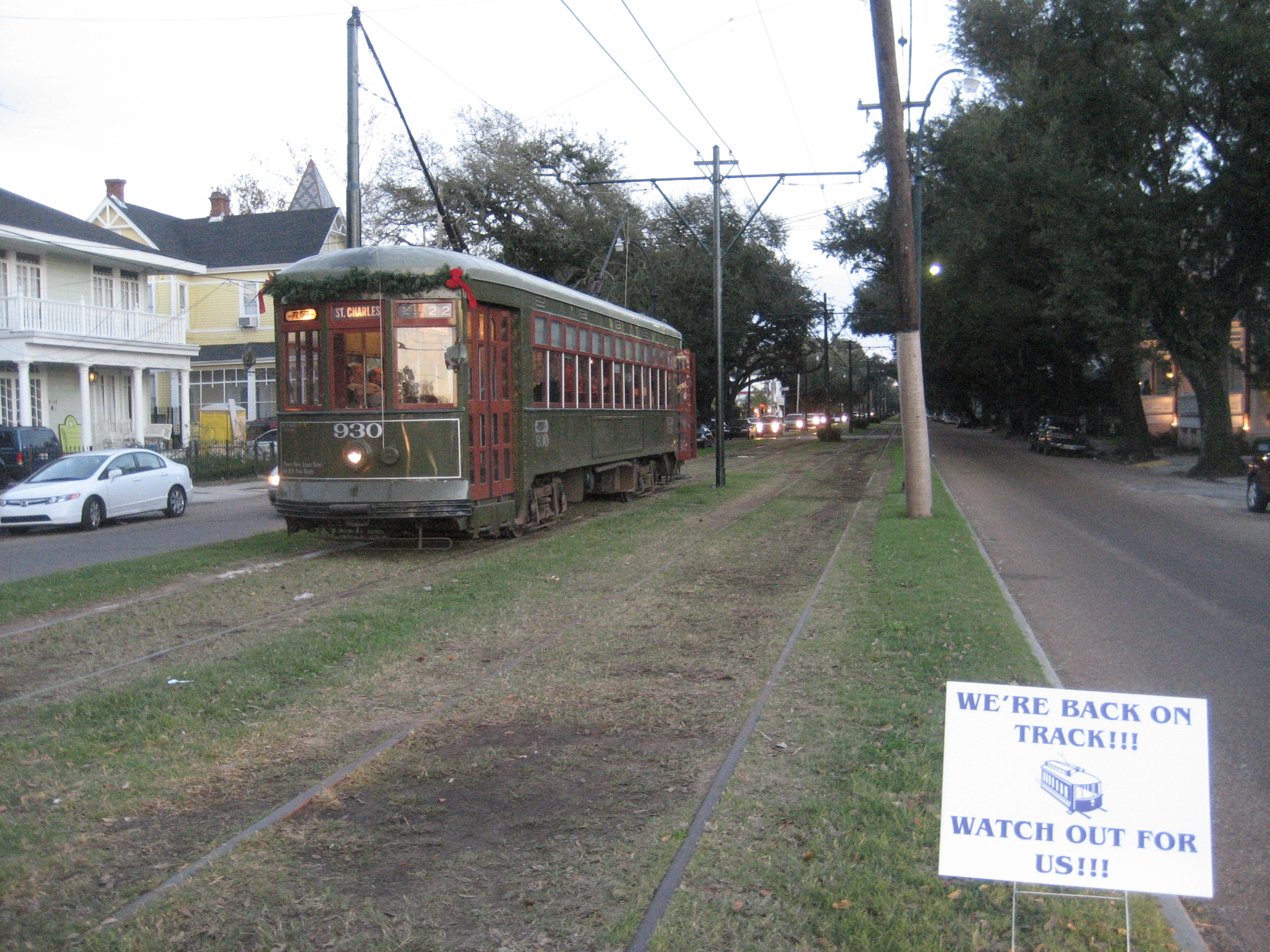 New Orleans: The St. Charles streetcars return to the Riverbend Carrollton section for the first time since Hurricane Katrina more than 2 years earlier.